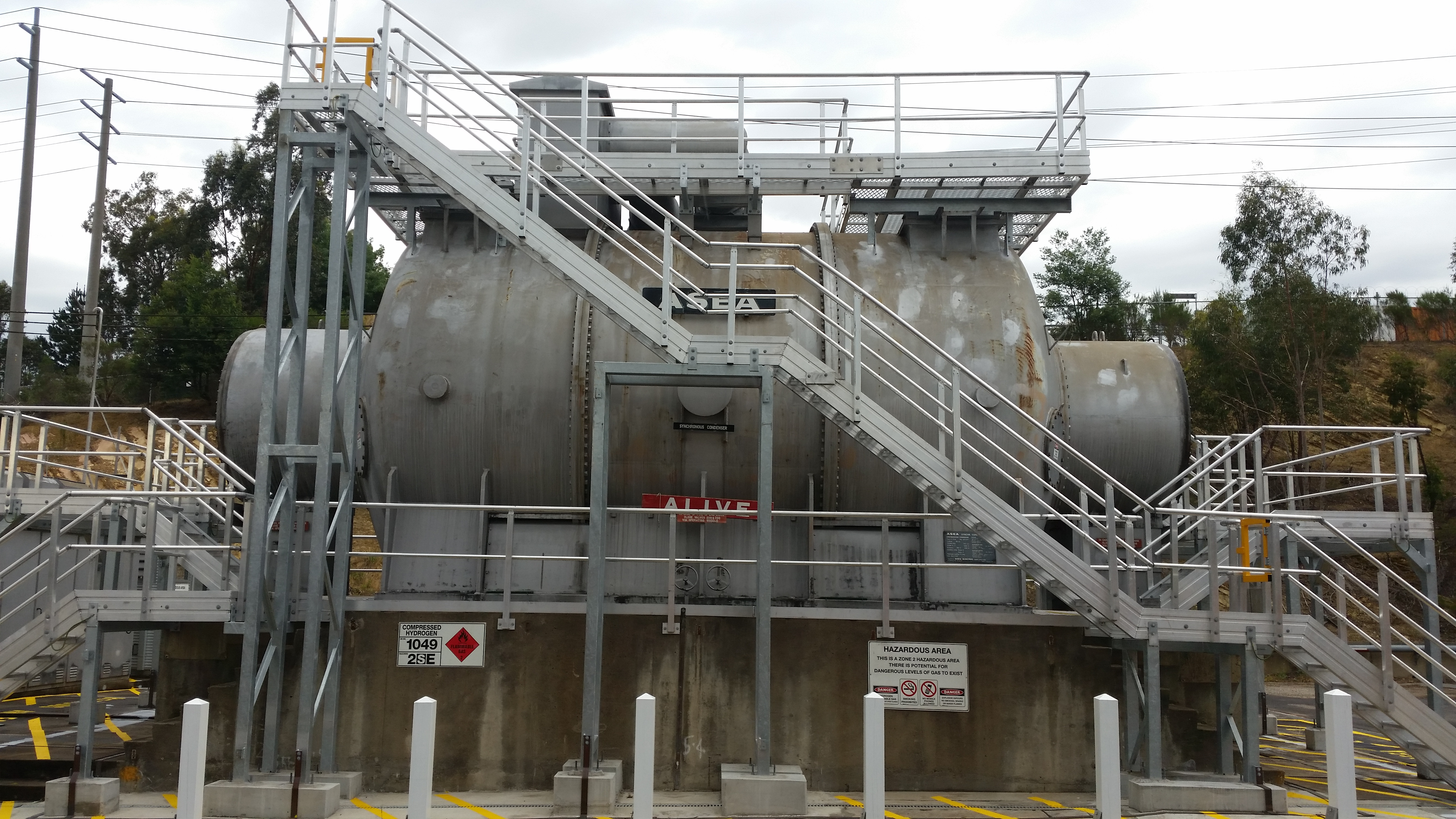 Synchronous condenser installation at Templestowe substation, Melbourne Victoria, Australia.